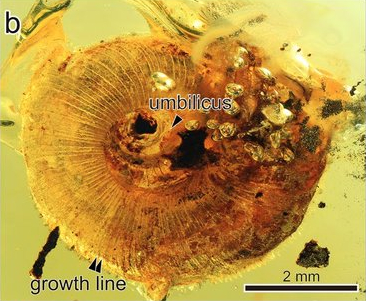 Archaeocyclotus plicatula Asato and Hirano, gen. et sp. nov. from the mid-Cretaceous Burmese amber. Holotype NMNS PM 27992. (b) Ventral view showing a large umbilicus, growth ribs and lines.